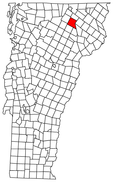 Description: Map of Vermont towns with Barton highlighted Source: Map created by Jared C. Benedict on 26 March 2004. Copyright: © Jared C. Benedict. Category:Barton, Vermont